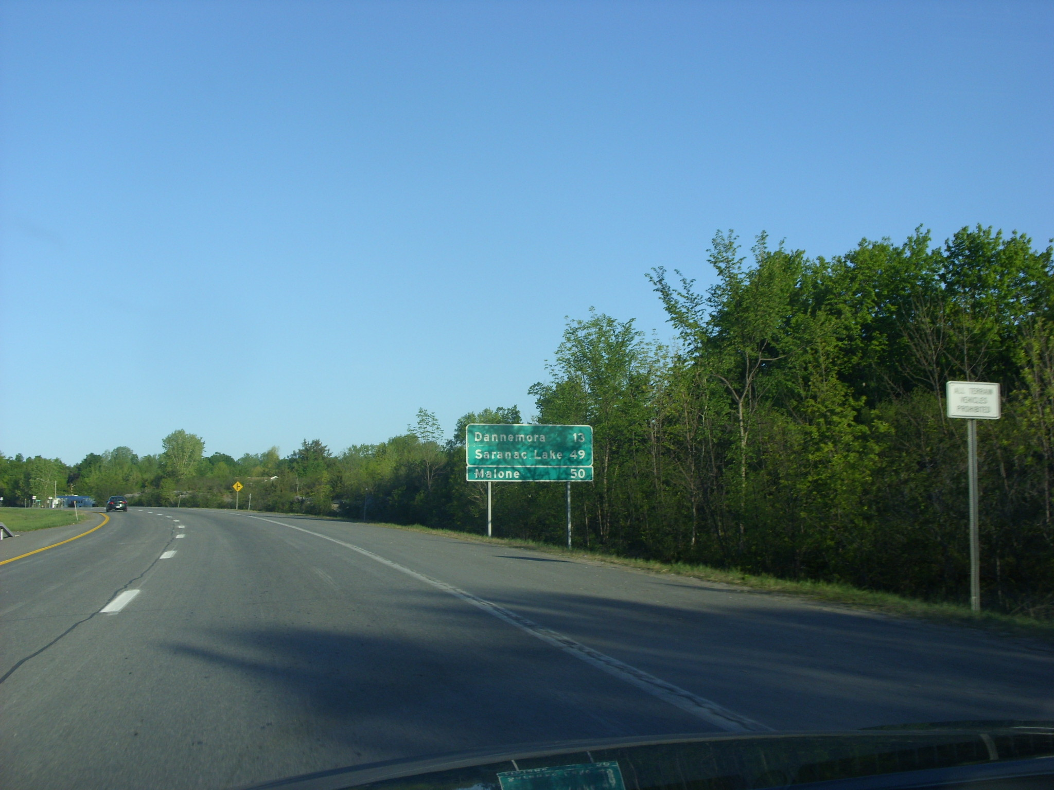 Sign denonating Route 374's arterial distance from Dannemora, NY